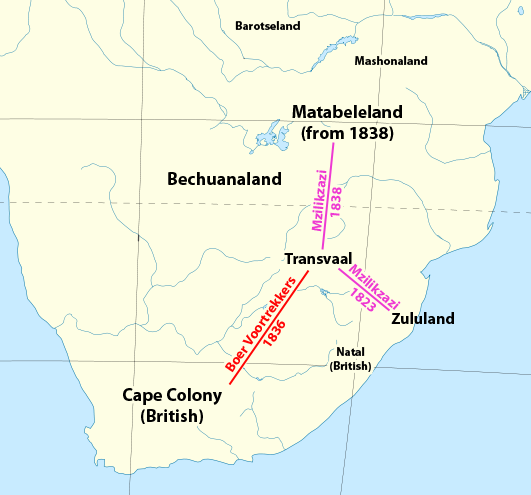 A simplified map showing the two main migrations of king Mzilikazi of the Khumalo clan, who led his followers, the Ndebele/Matabele, from Zululand to modern Matabeleland in the early 19th century.